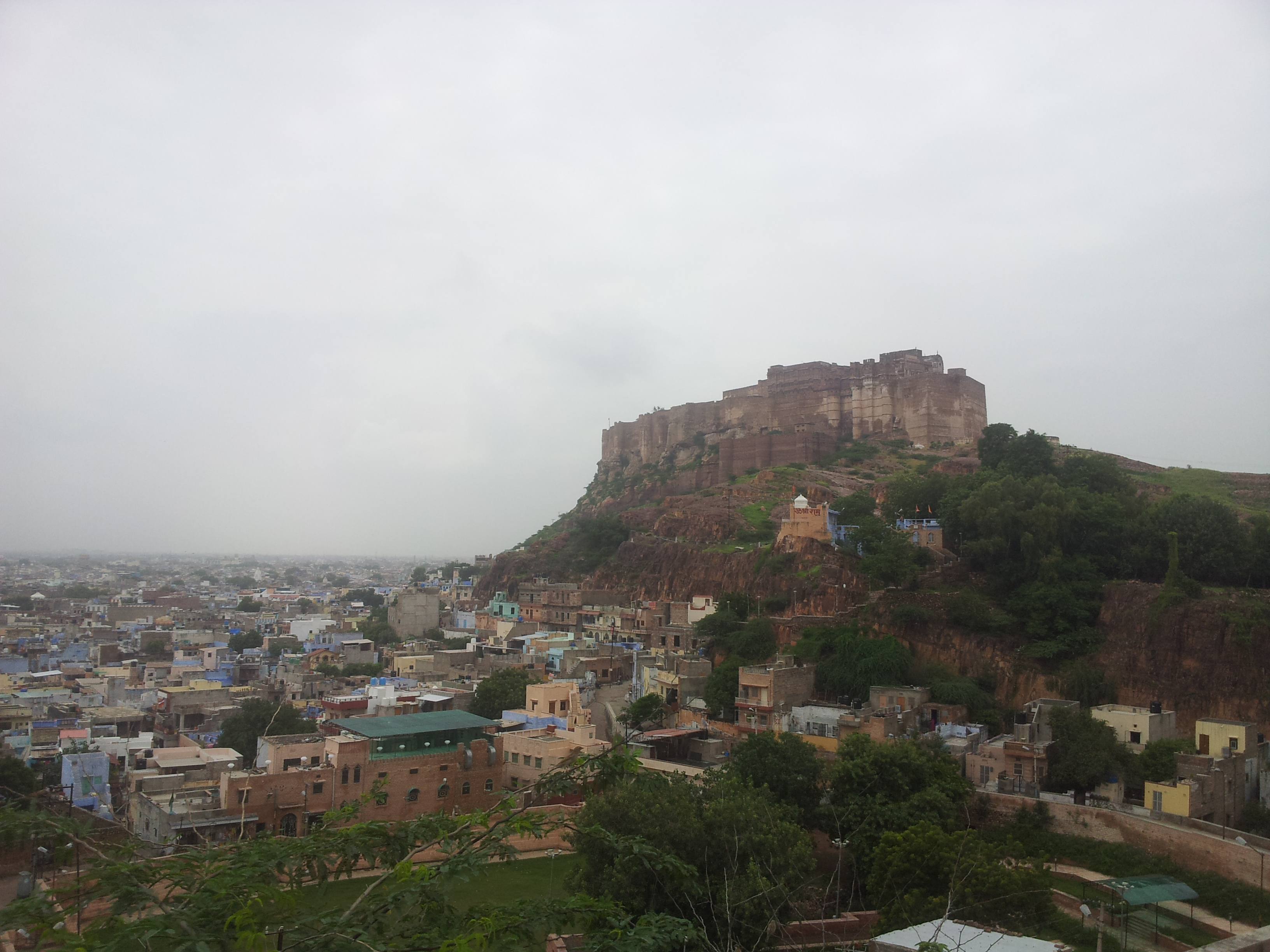 Jodhpur Fort